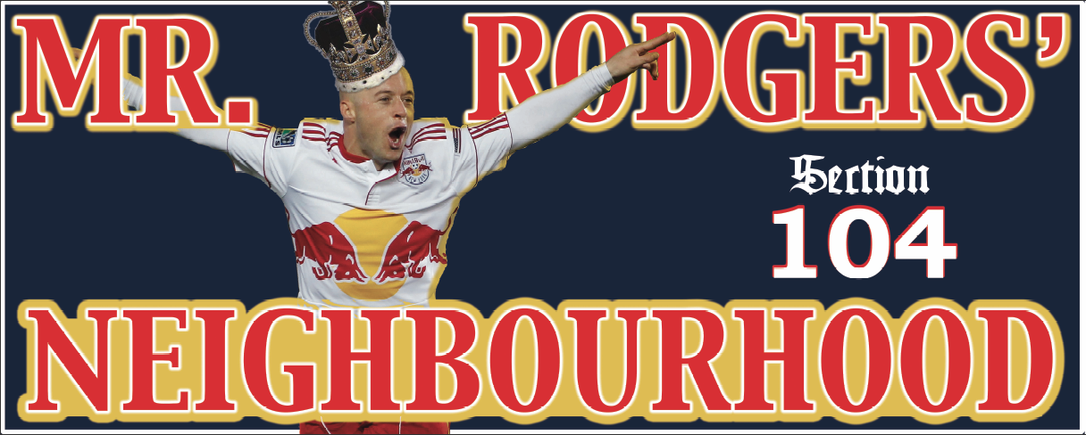 Luke Rodgers RBNY Section 104 Supporter Banner